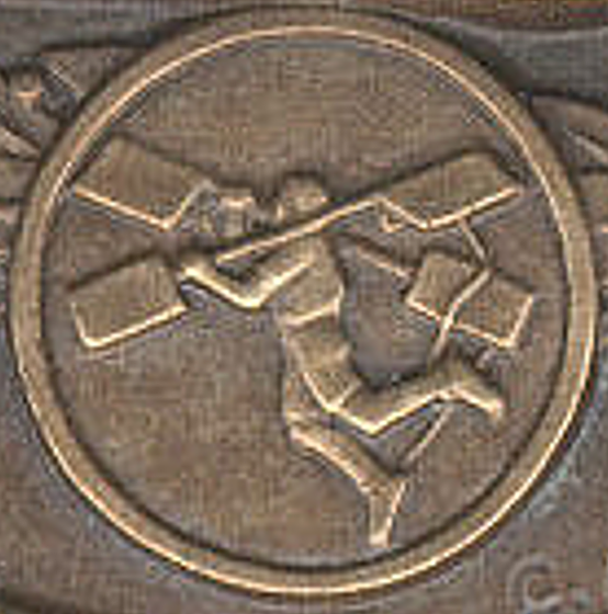 Artistic representation of the Besnier flying machine.